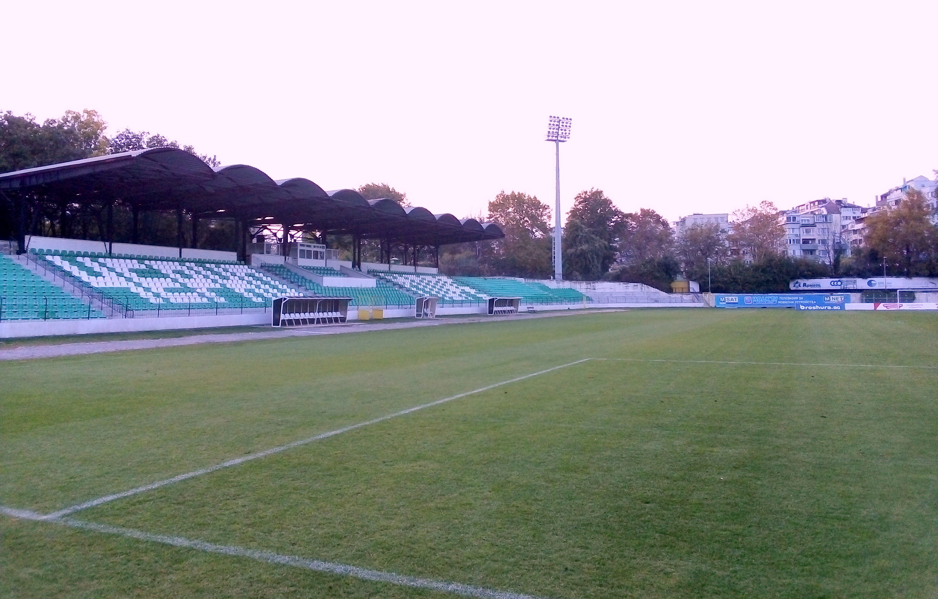 Ticha Stadium, Varna, Bulgaria